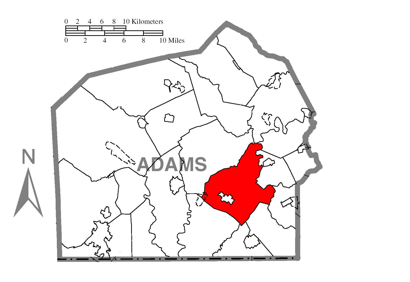 A map of Adams County showing Mount Pleasant Township, Pennsylvania (alternate) highlighted on the map.